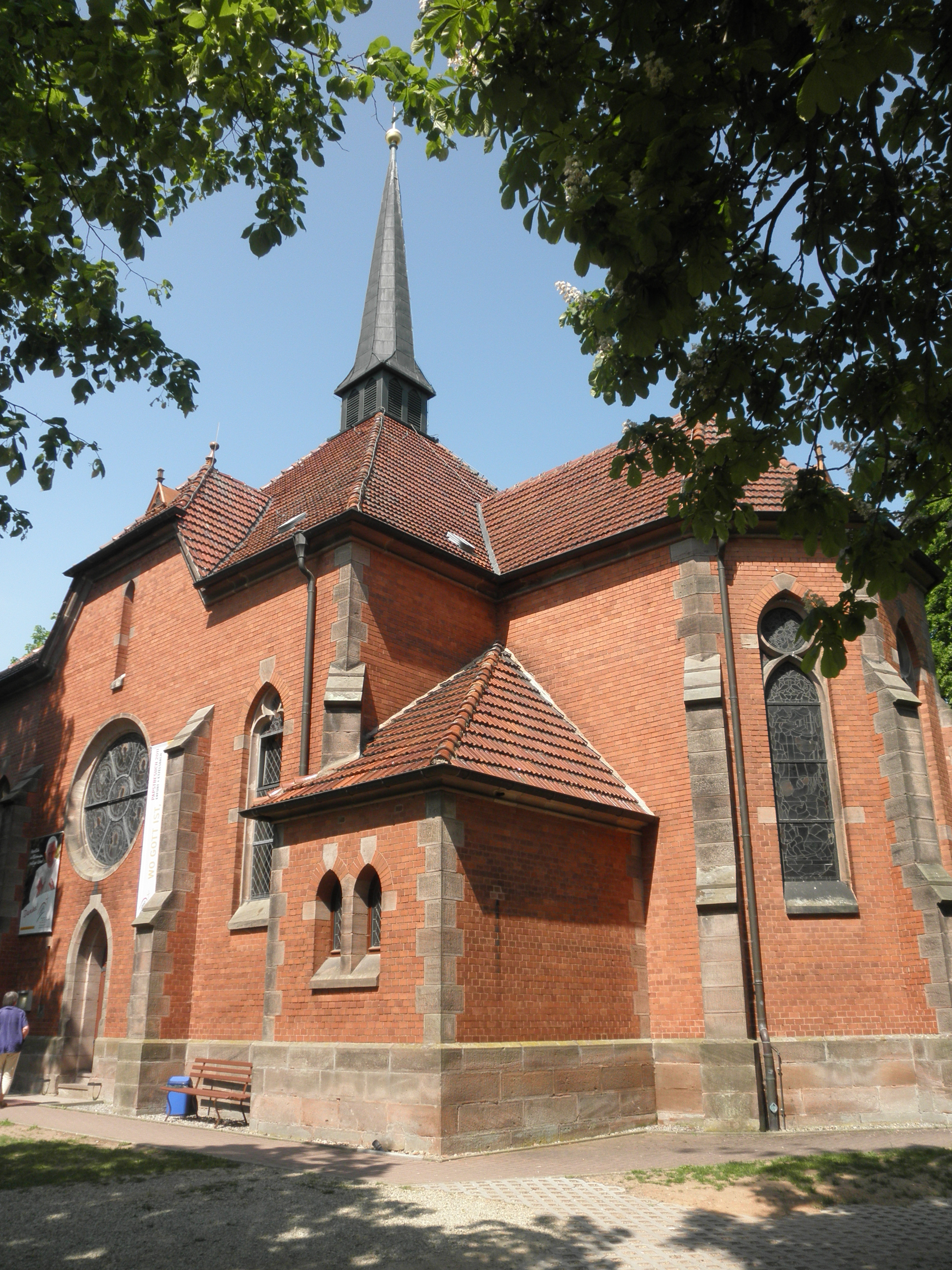 Chapel in Etzelsbach (Eichsfeld) in Thuringia